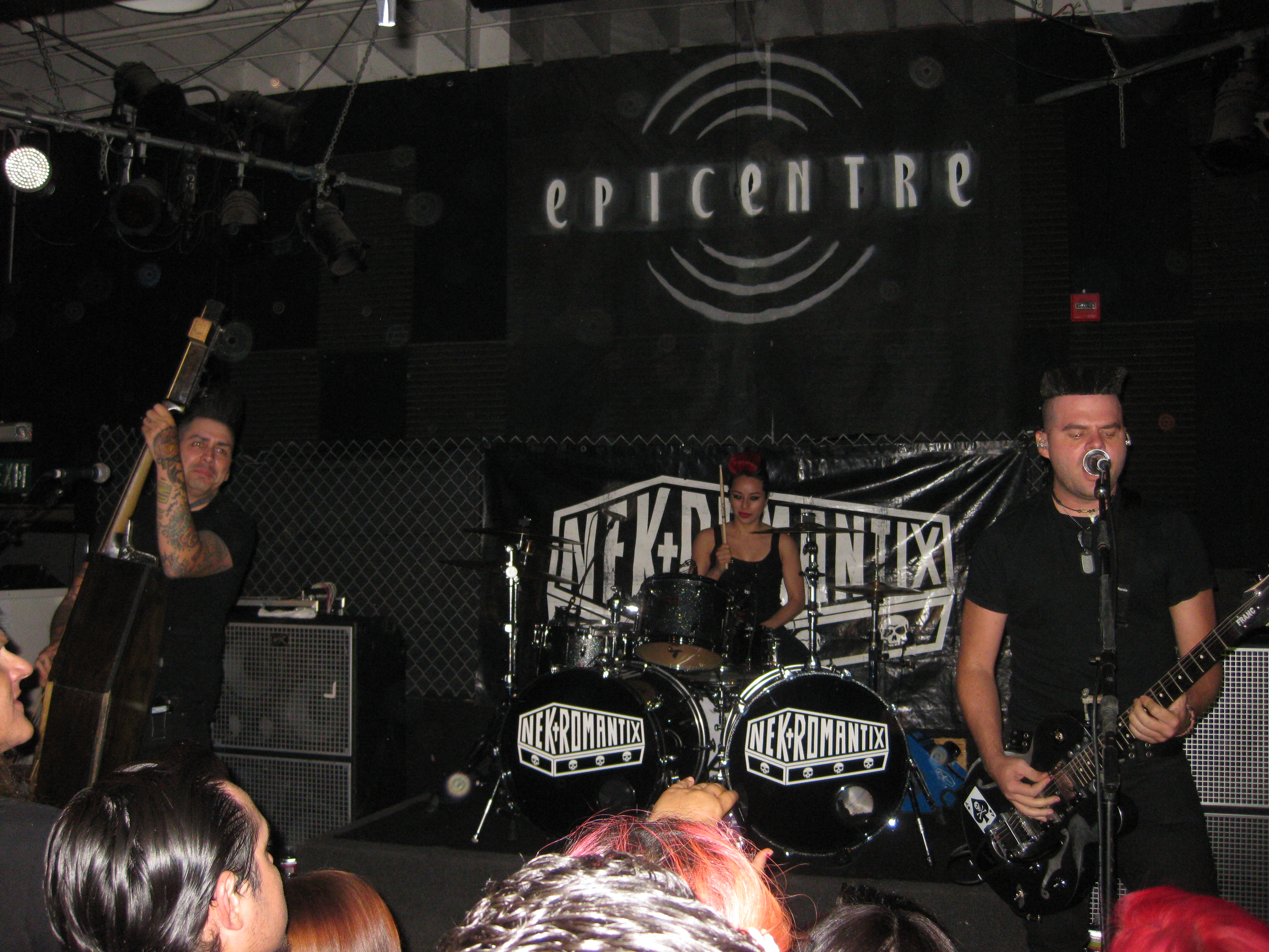 Psychobilly band the Nekromantix performing in San Diego, California on August 13, 2011. Left to right: Kim Nekroman (bass guitar, lead vocals), Lux (drums), and Francisco Mesa (guitar, backing vocals).